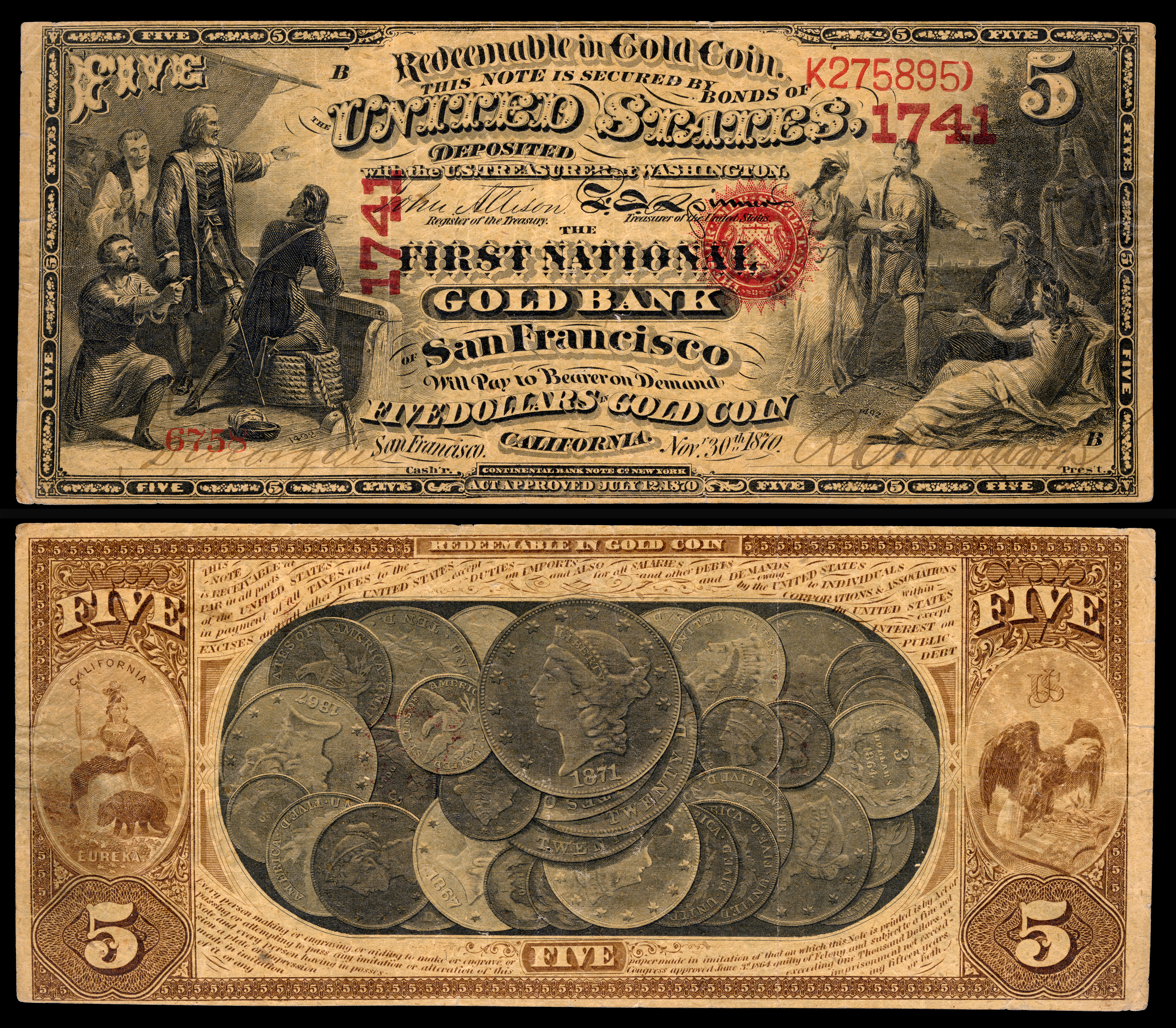 A $5 National Gold Bank Note issued by the First National Gold Bank of San Francisco, California. Engraved signatures of Allison (Register of the Treasury) and Spinner (Treasurer of the United States). Hand signed by bank officers Edwin D. Morgan (Cashier) and Ralph C. Woolworth (President).